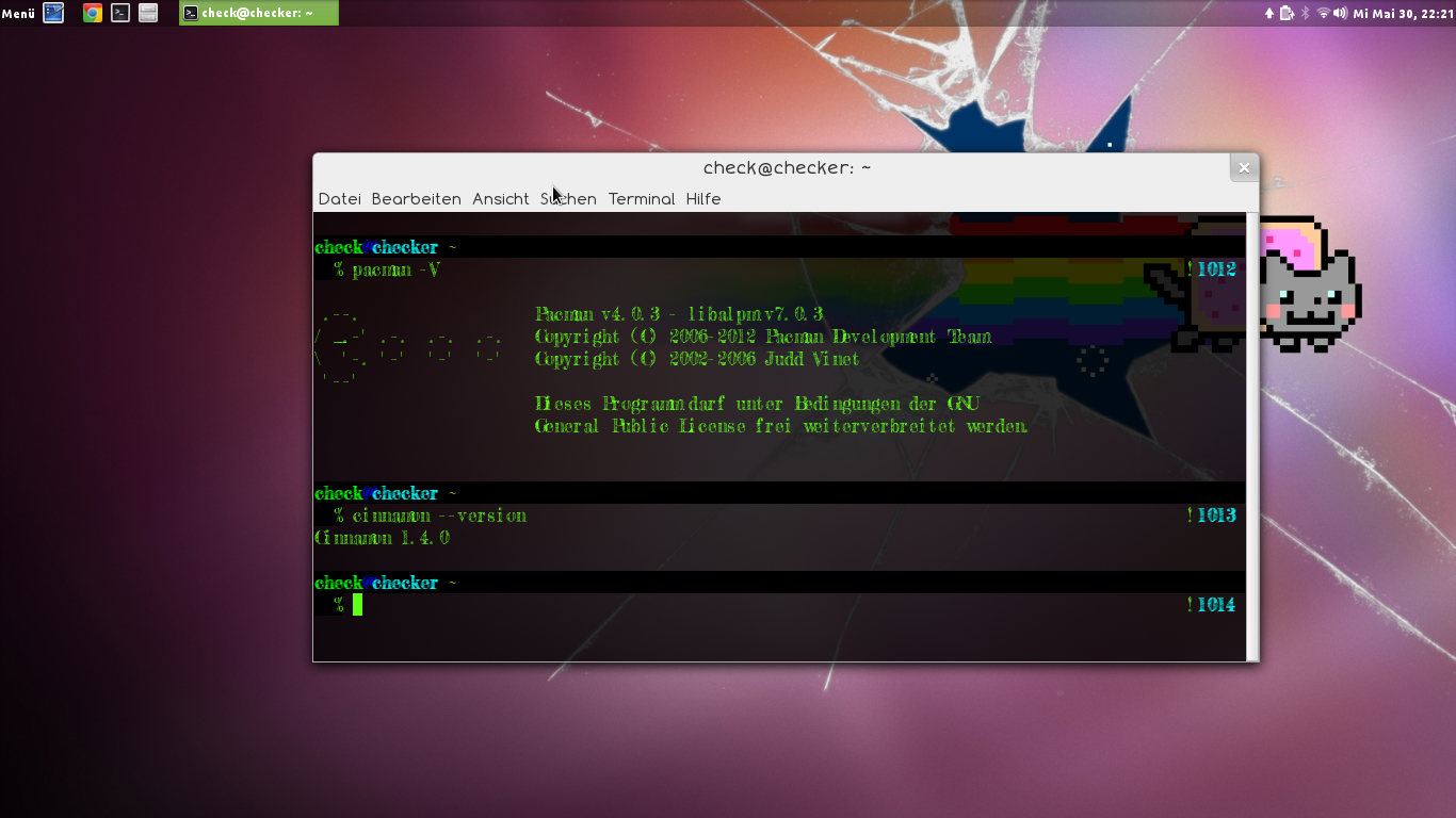 A screenshot of ArchLinux running Cinnamon 1.4.0 and Zsh with the background "Nyan Cat Oneric" and Minty-Transparent Theme.